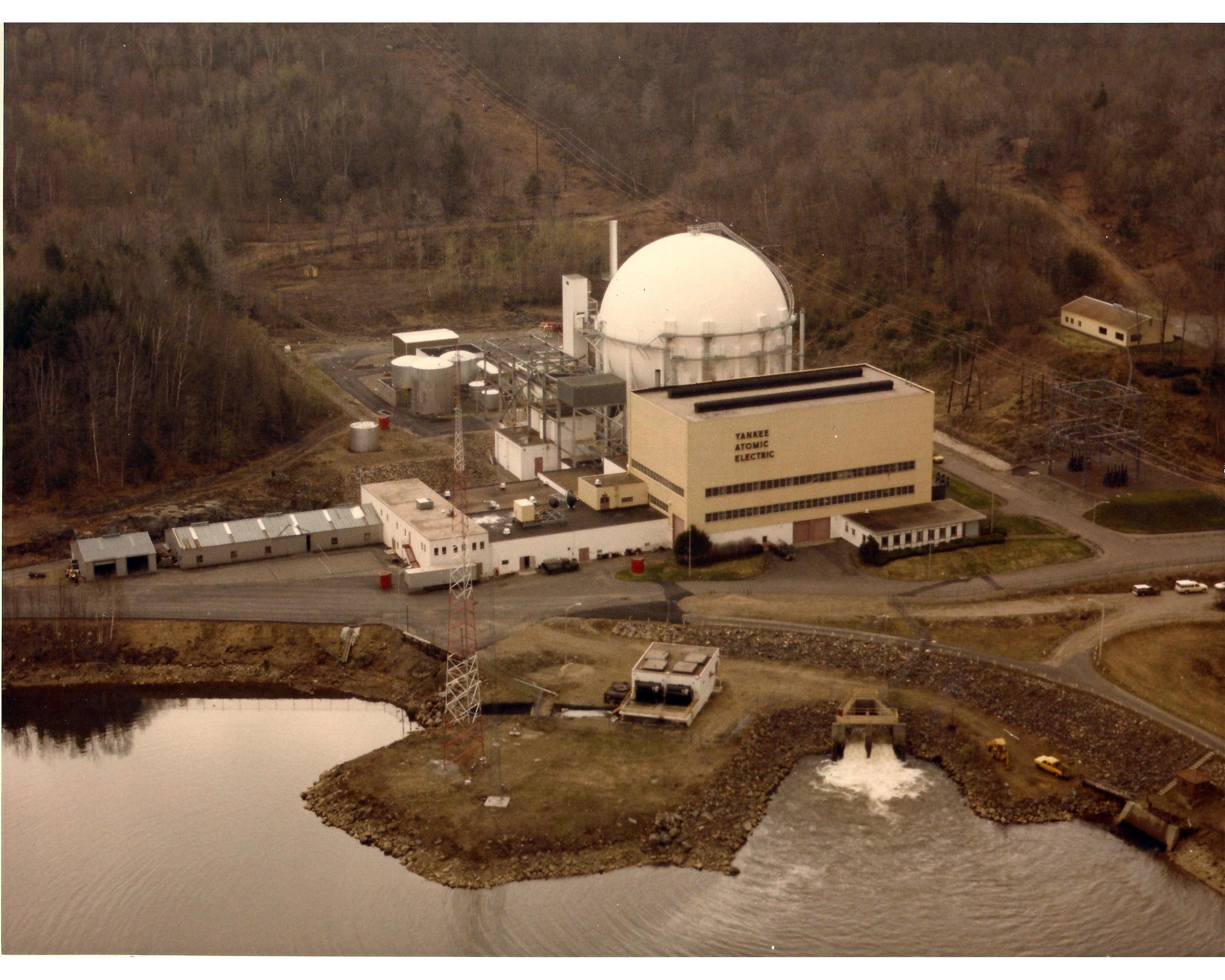 Yankee Rowe is located in the towns of Rowe and Monroe, in the northwest corner of Franklin County, MA in NRC Region I.